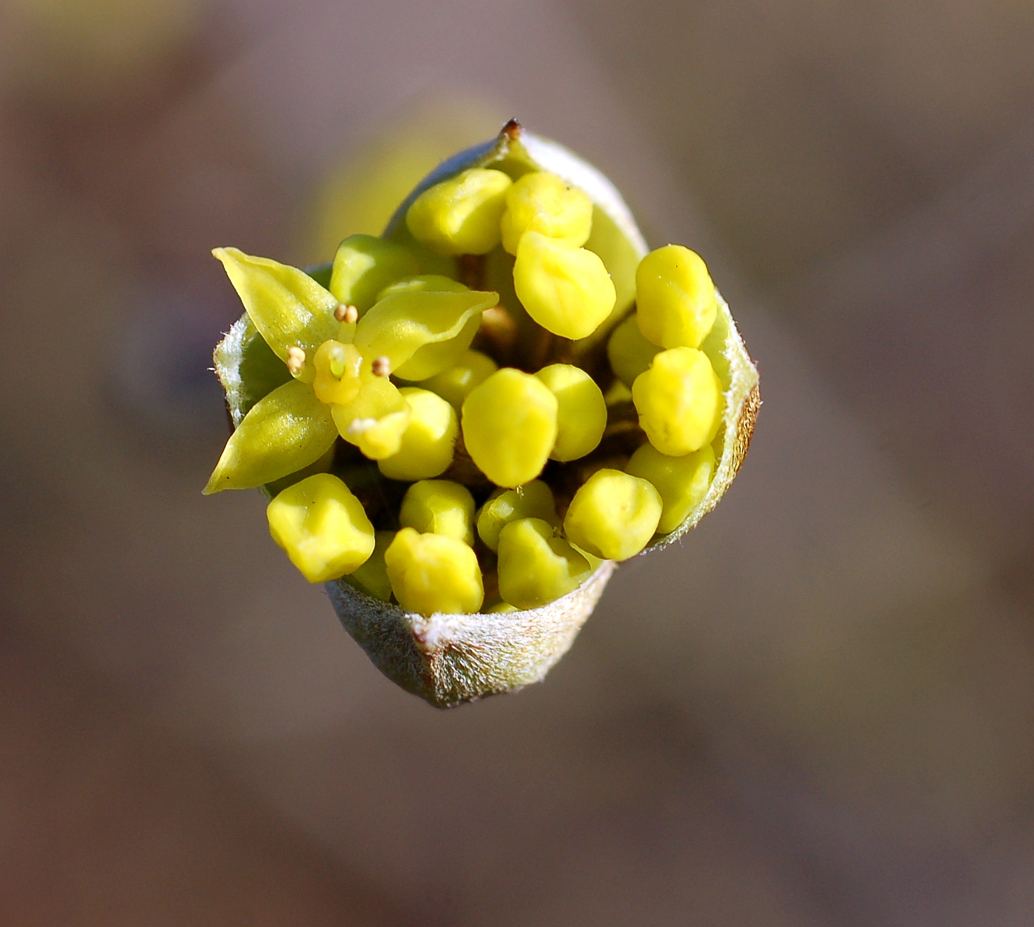 European Cornel's bud opening in springtime